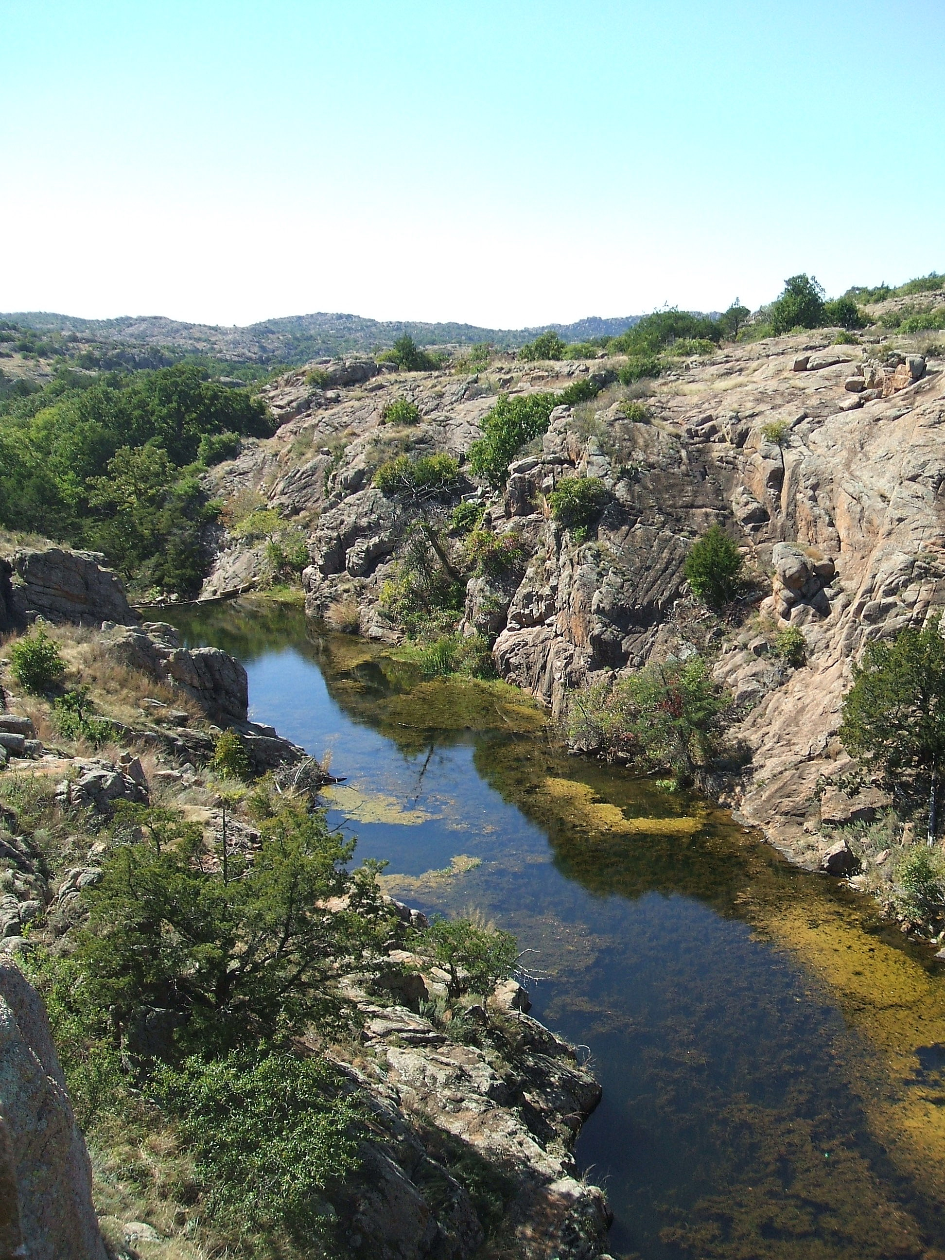 Civilian Conservation Corps dam, Wichita Mountains National Wildlife Refuge, Oklahoma, USA